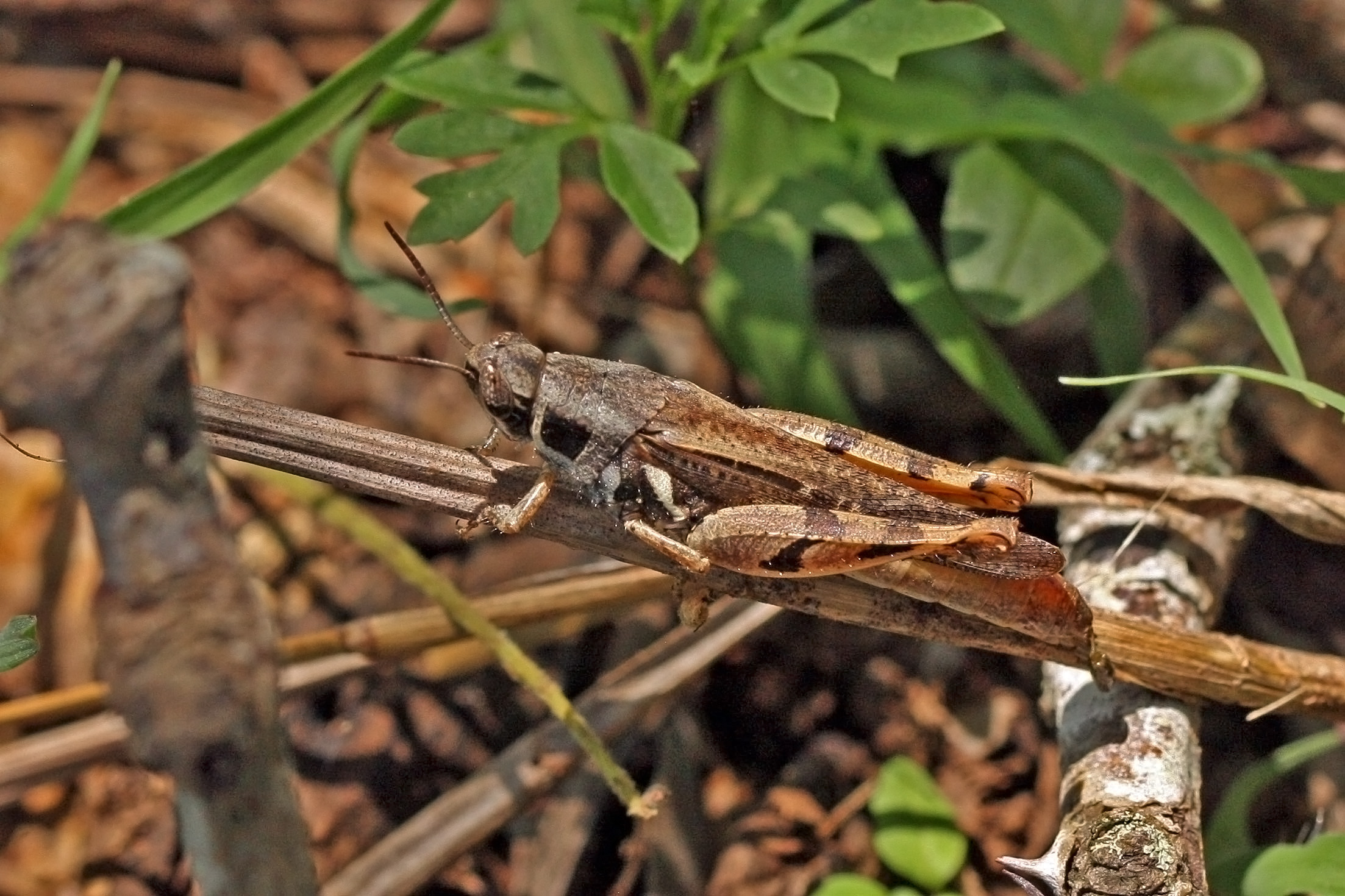 Spur-throated grasshopper (Catantops humeralis), Kwa-Zulu Natal, South Africa